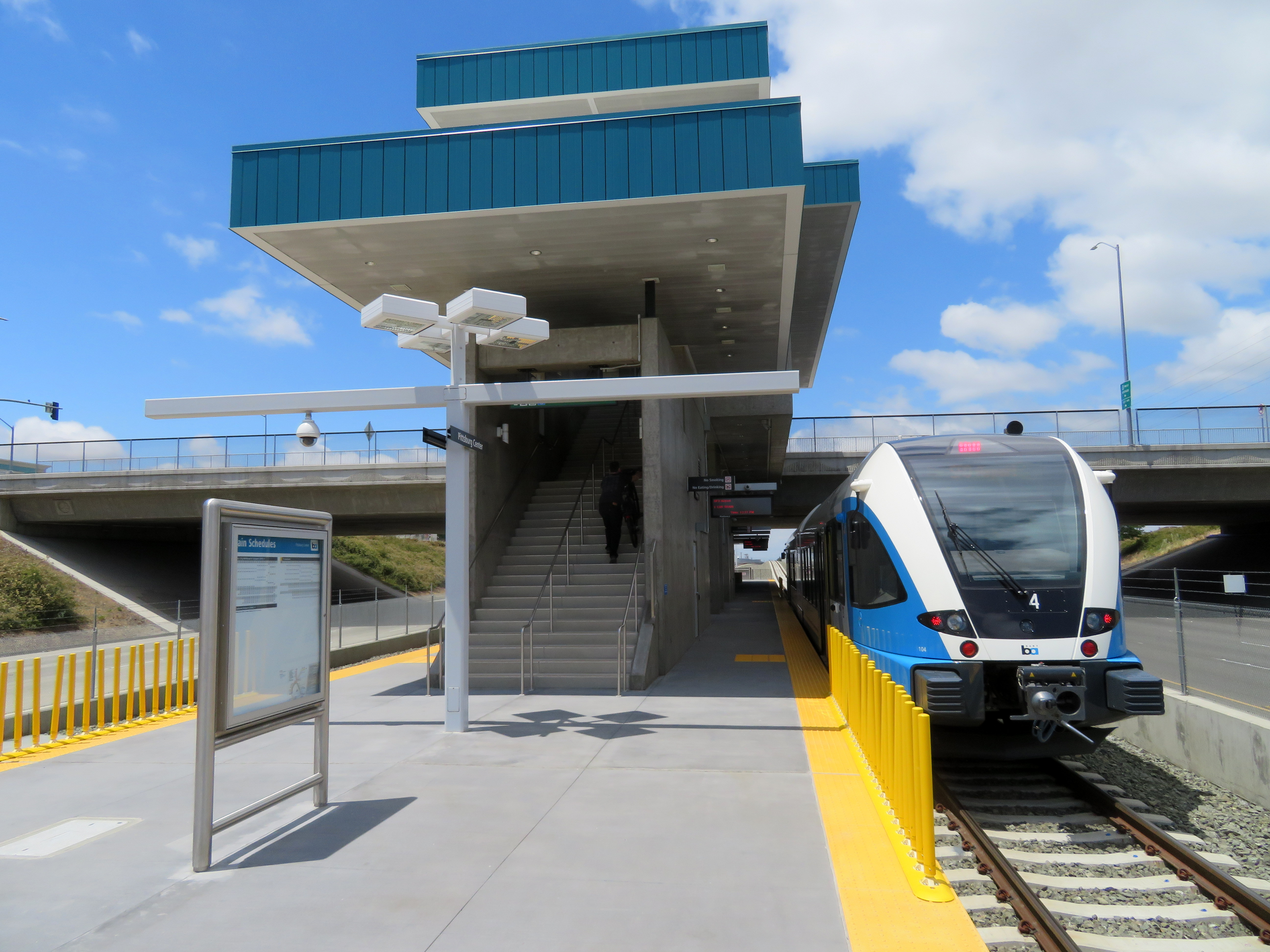 A westbound train at Pittsburg Center station on the first day of eBART service in May 2018